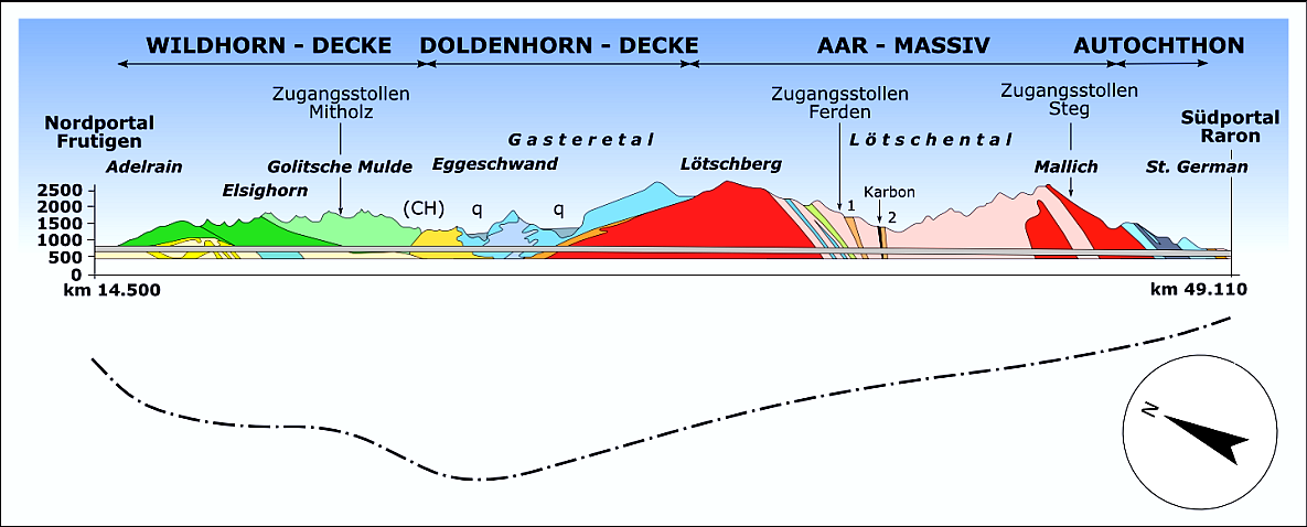 Lötschberg Base Tunnel - geology